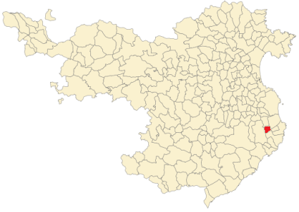 Torrent